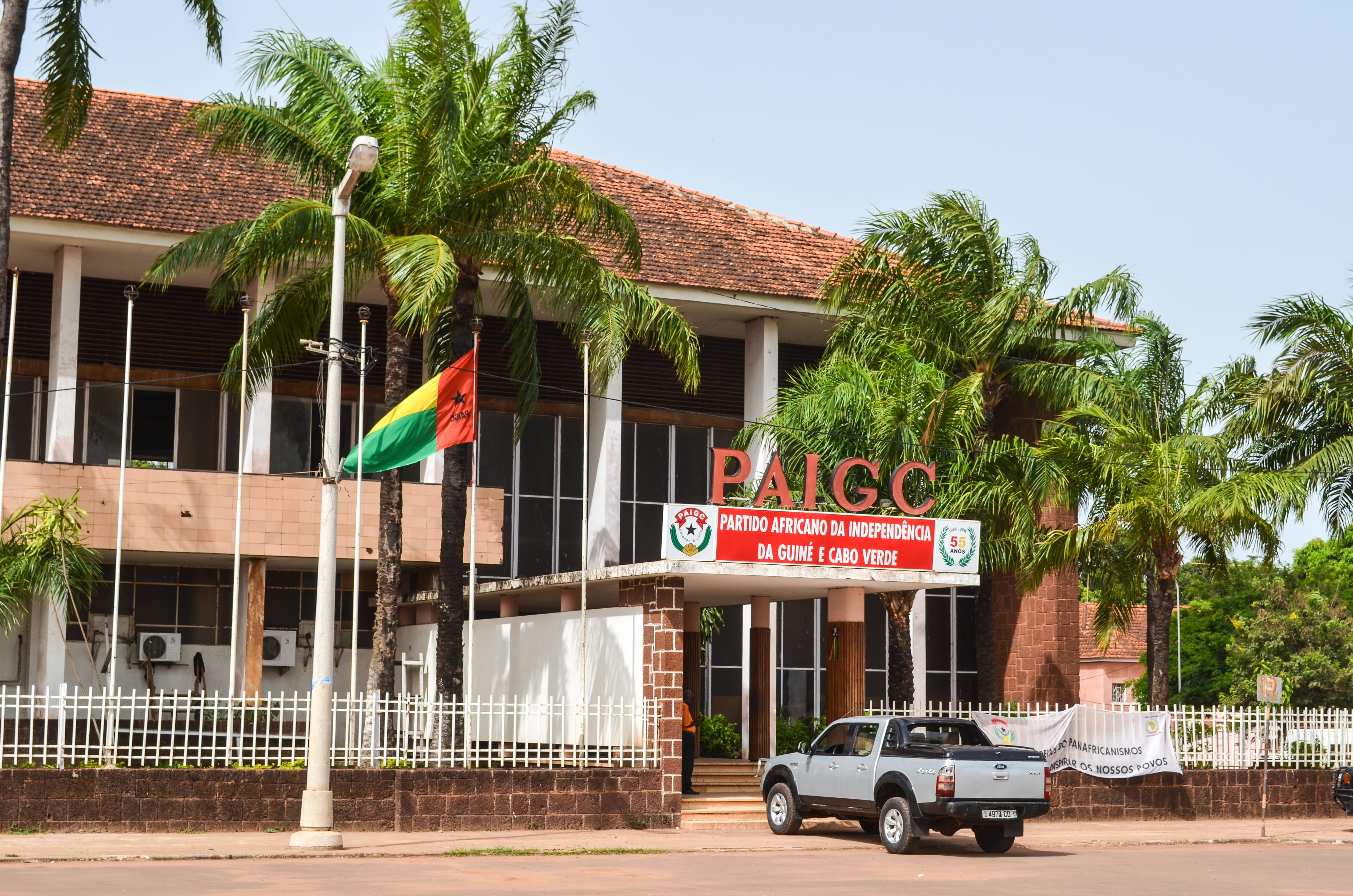 PAIGC headquarter at Praça dos Herois Nacionais in Bissau, Guinea-Bissau